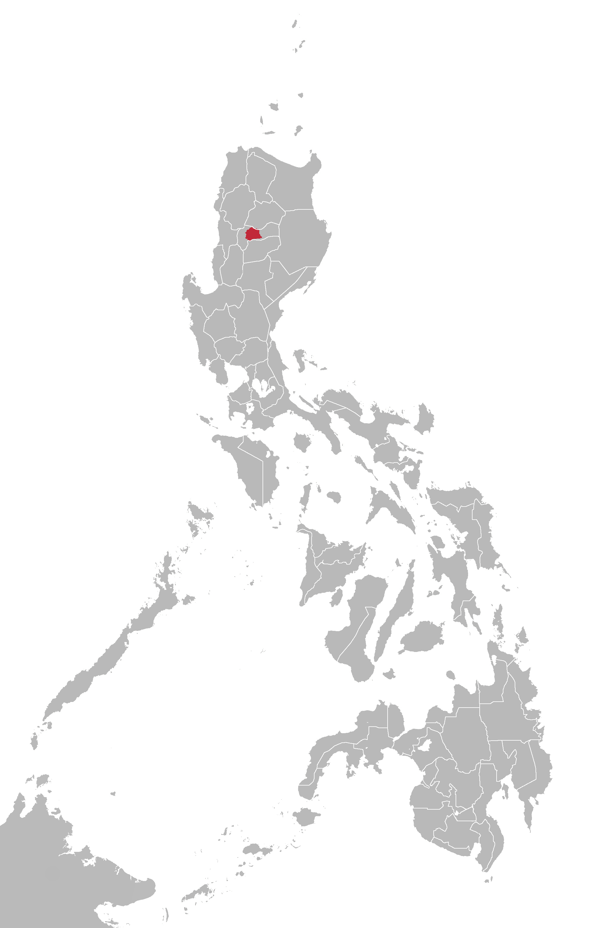 Bontok language map based on Ethnologue maps